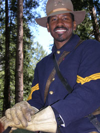 A photograph of Yosemite National Park ranger Shelton Johnson in the uniform of a "Buffalo Soldier" as part of a living history re-enactment.